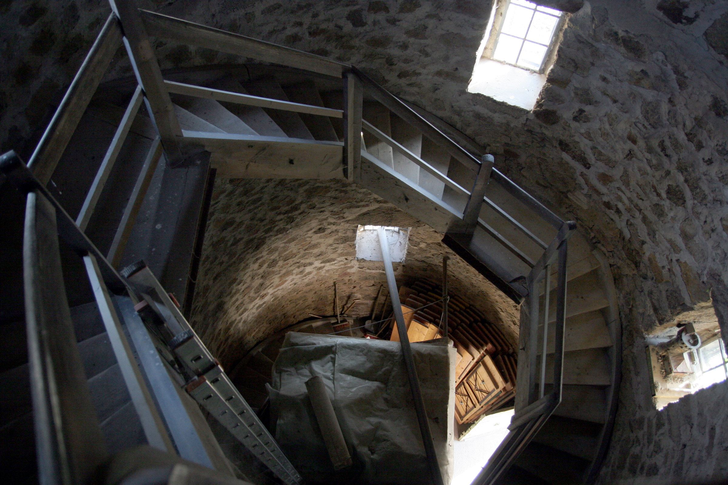 Bismarck tower at the top of the Hemsberg in Bensheim (Hesse, Germany). The staircase inside the tower.